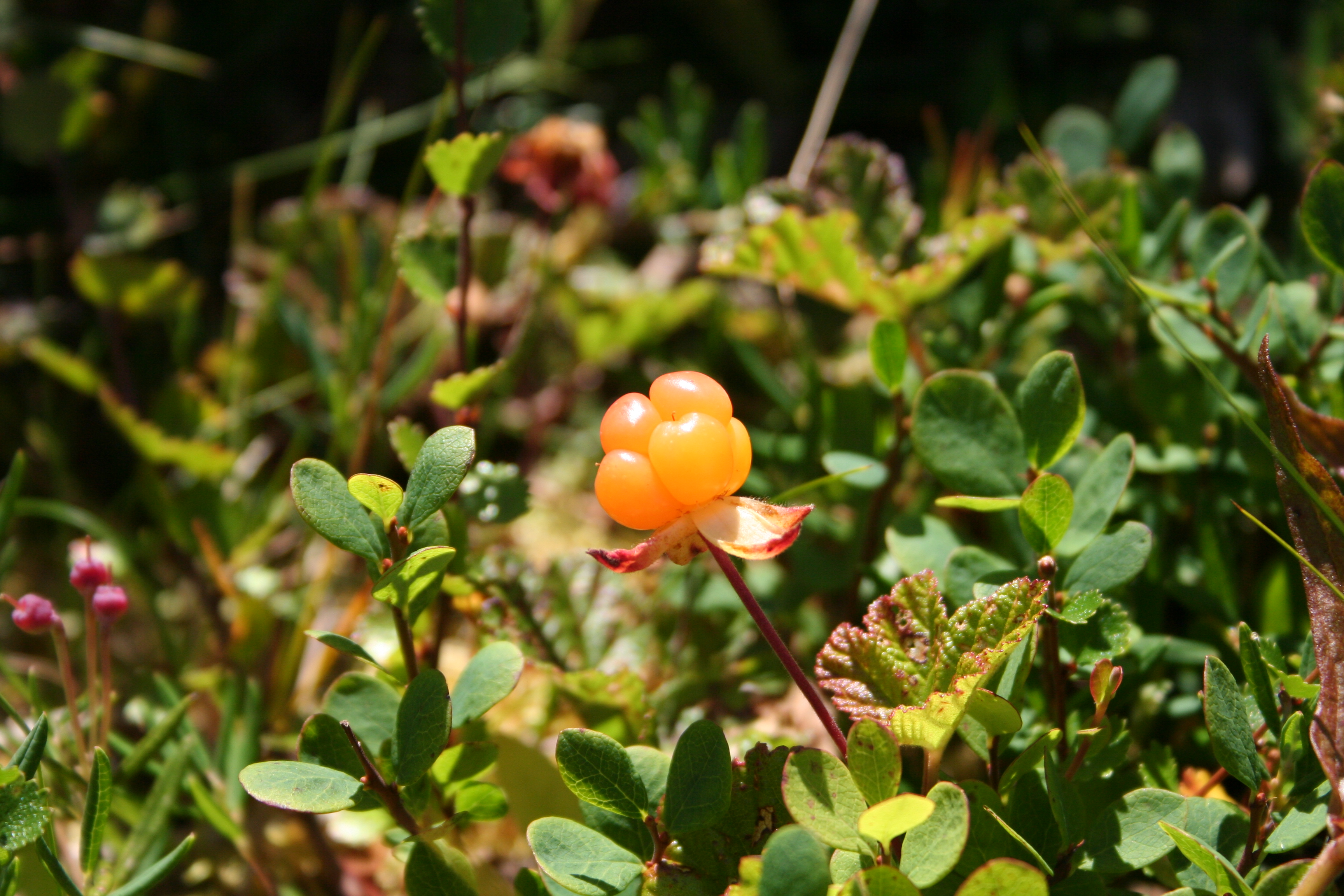 Cloudberry (Rubus chamaemorus)